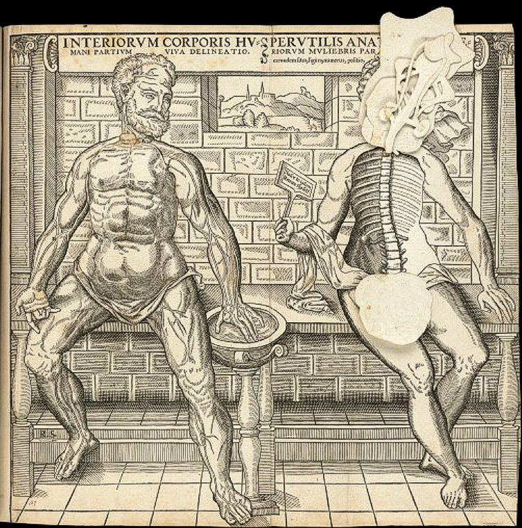 Anatomical Fugitive Sheet depicting the human body in various stages of dissection